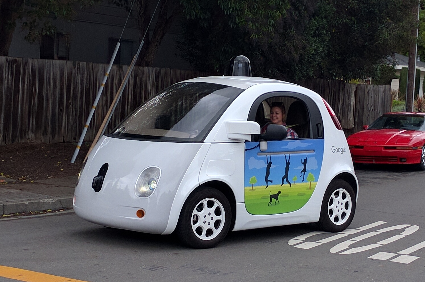 A Google self-driving car at the intersection of Junction Ave and North Rengstorff Ave in Mountain View. This picture was taken from the bike lane of North Rengstorff Ave.